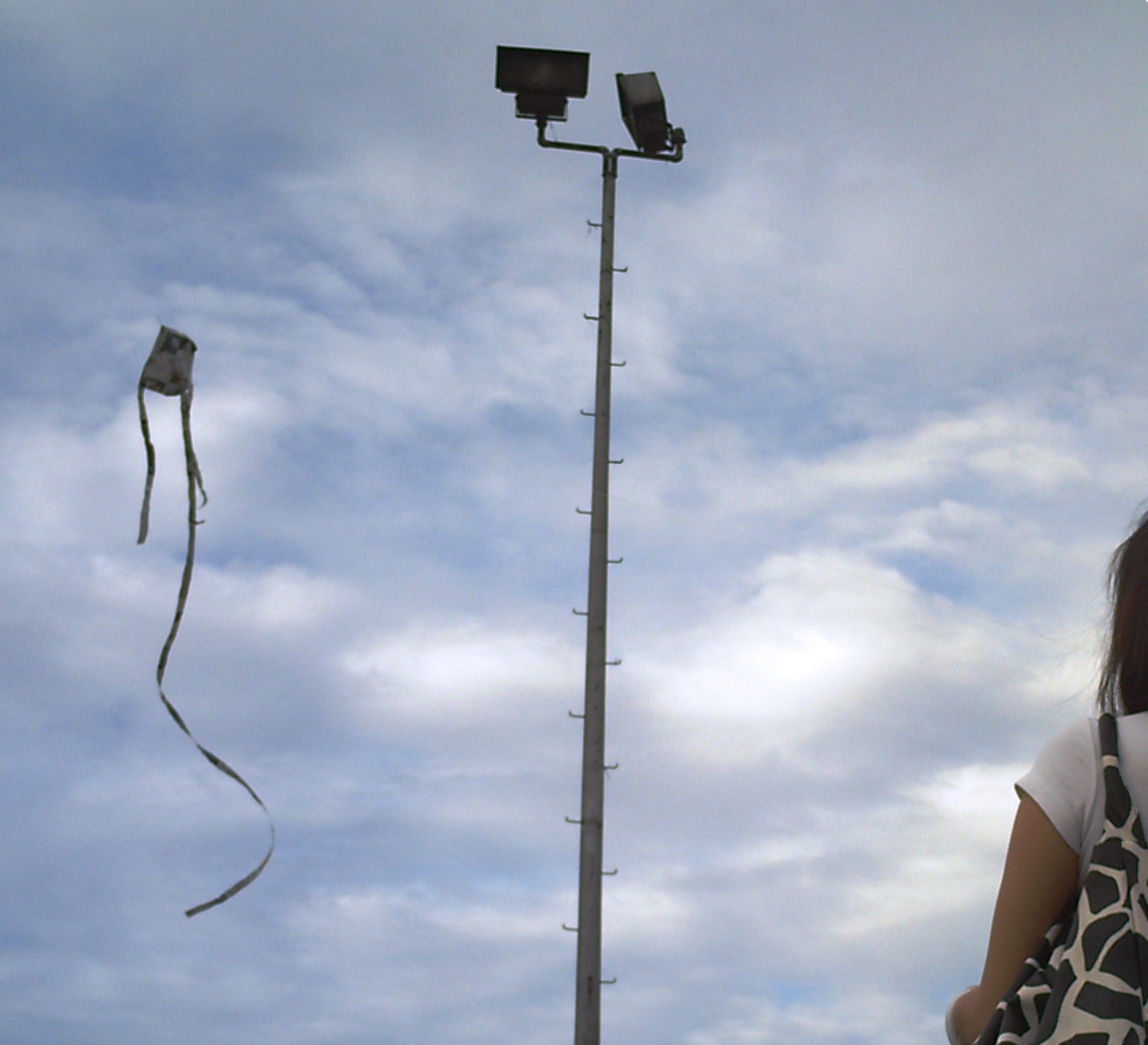 Girl flying a chapichpai